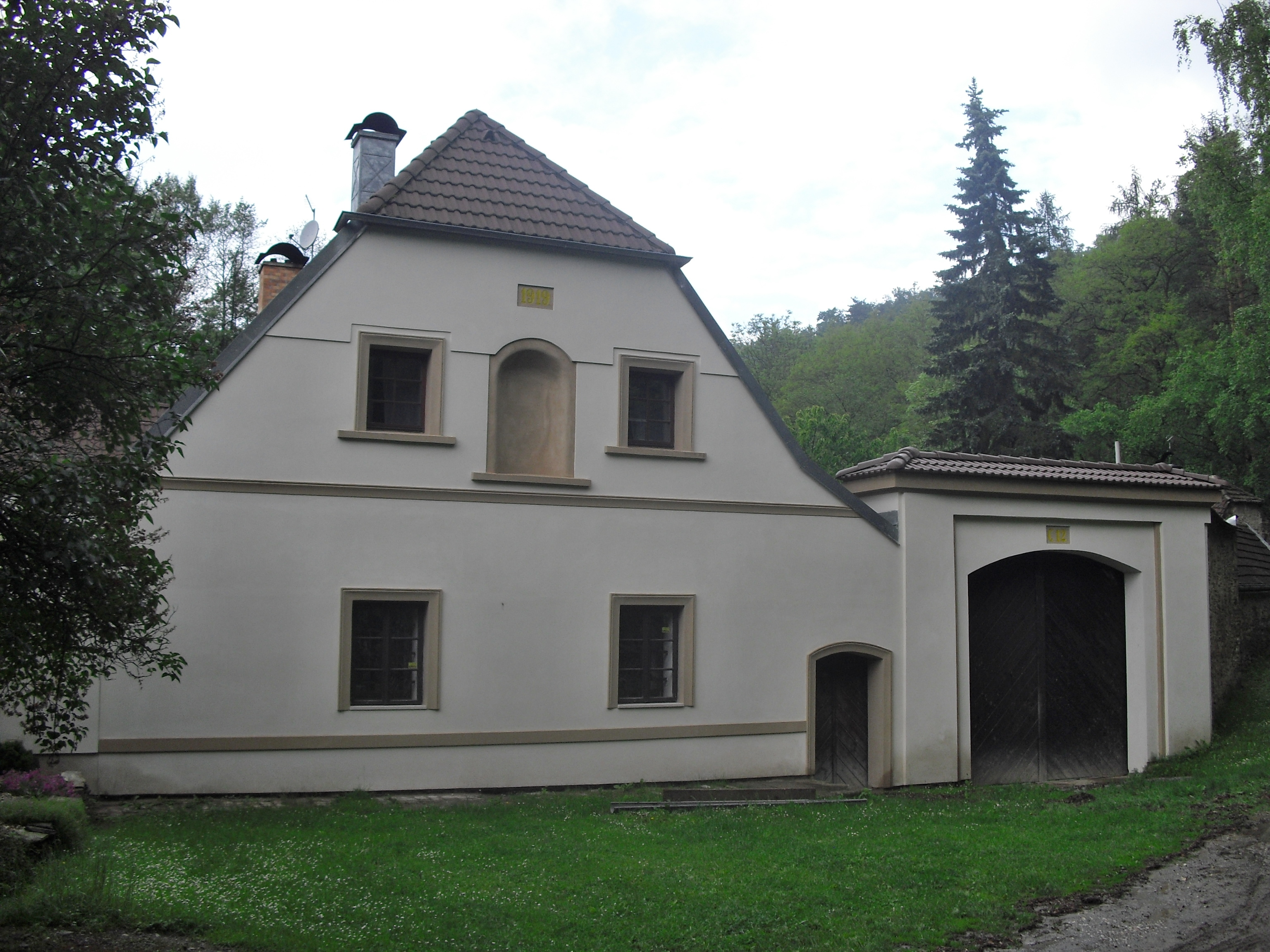 Svrkyně, Prague-West District, Czech Republic, part Hole. House Nr. 12.